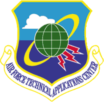 Emblem of the Air Force Technical Applications Center of the United States Air Force